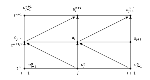 Representation of the advancement of the MacCormack scheme